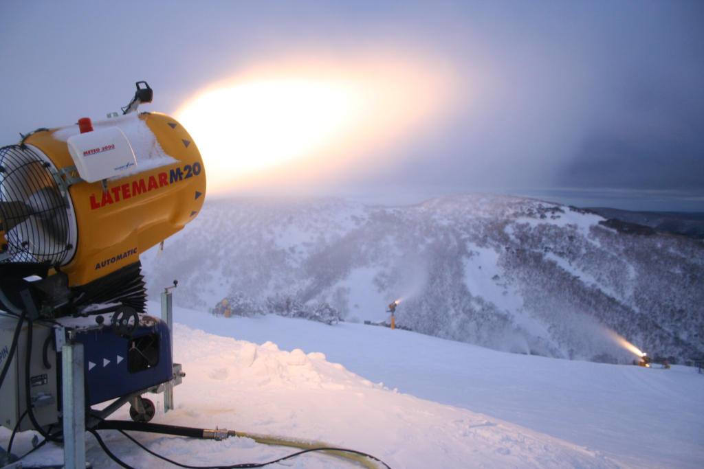 Snow making at Mount Hotham, Victoria, Australia